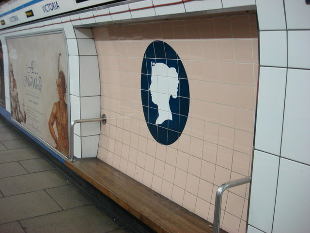 Blue cameo of Queen Victoria on pink background by Edward Bawden. This motif is on the Victoria line platforms